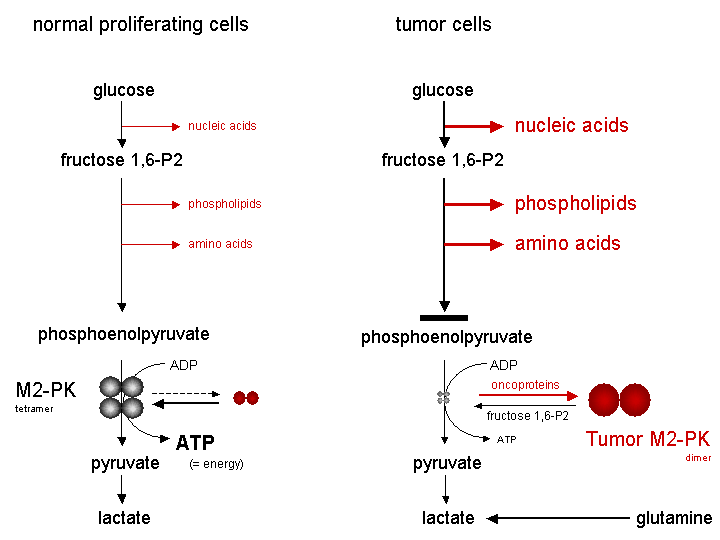 Effect of the tetrameric and dimeric form of M2-PK on cell metabolism